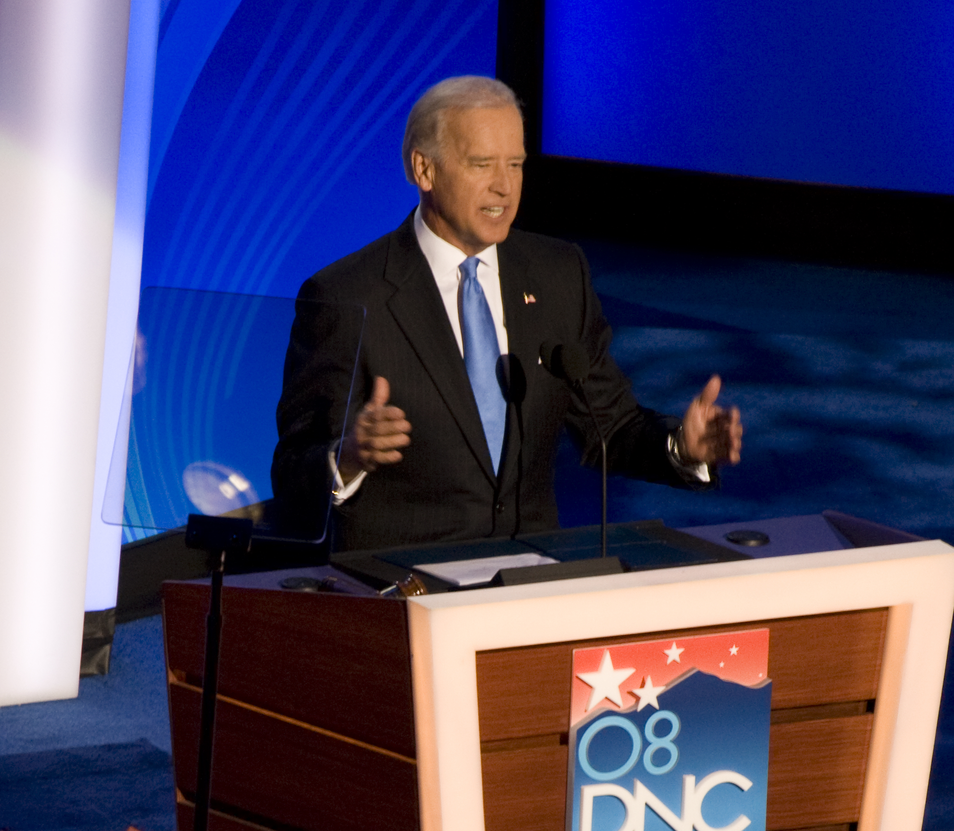 Joe Biden speaks at the 2008 DNC